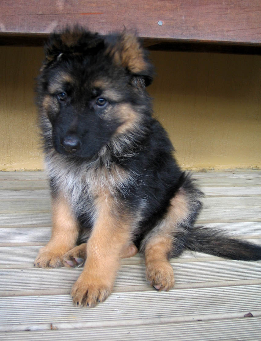 Long Haired GSD Puppy